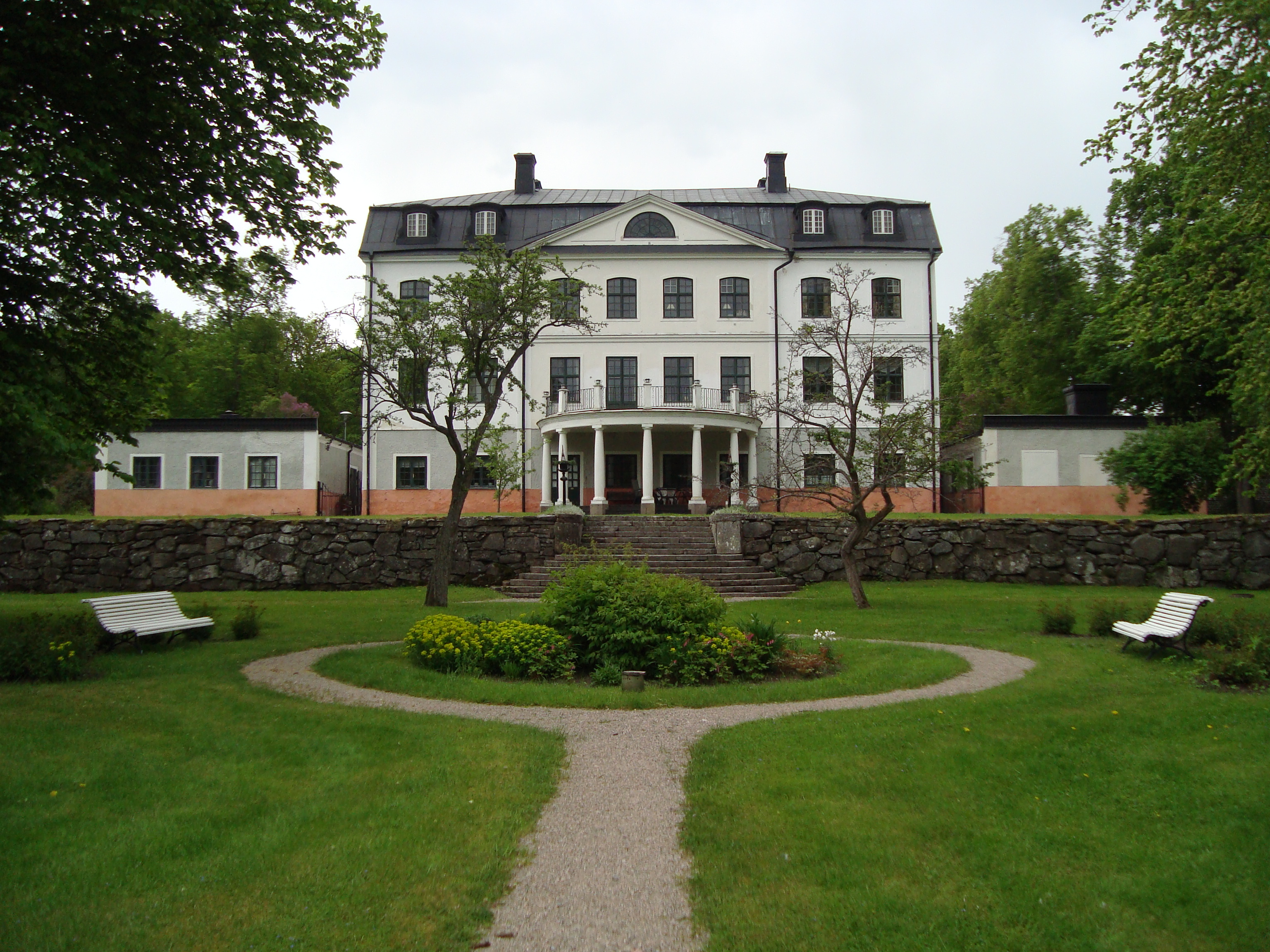 Old iron works of Forsbacka, Gävle Municipality, Sweden